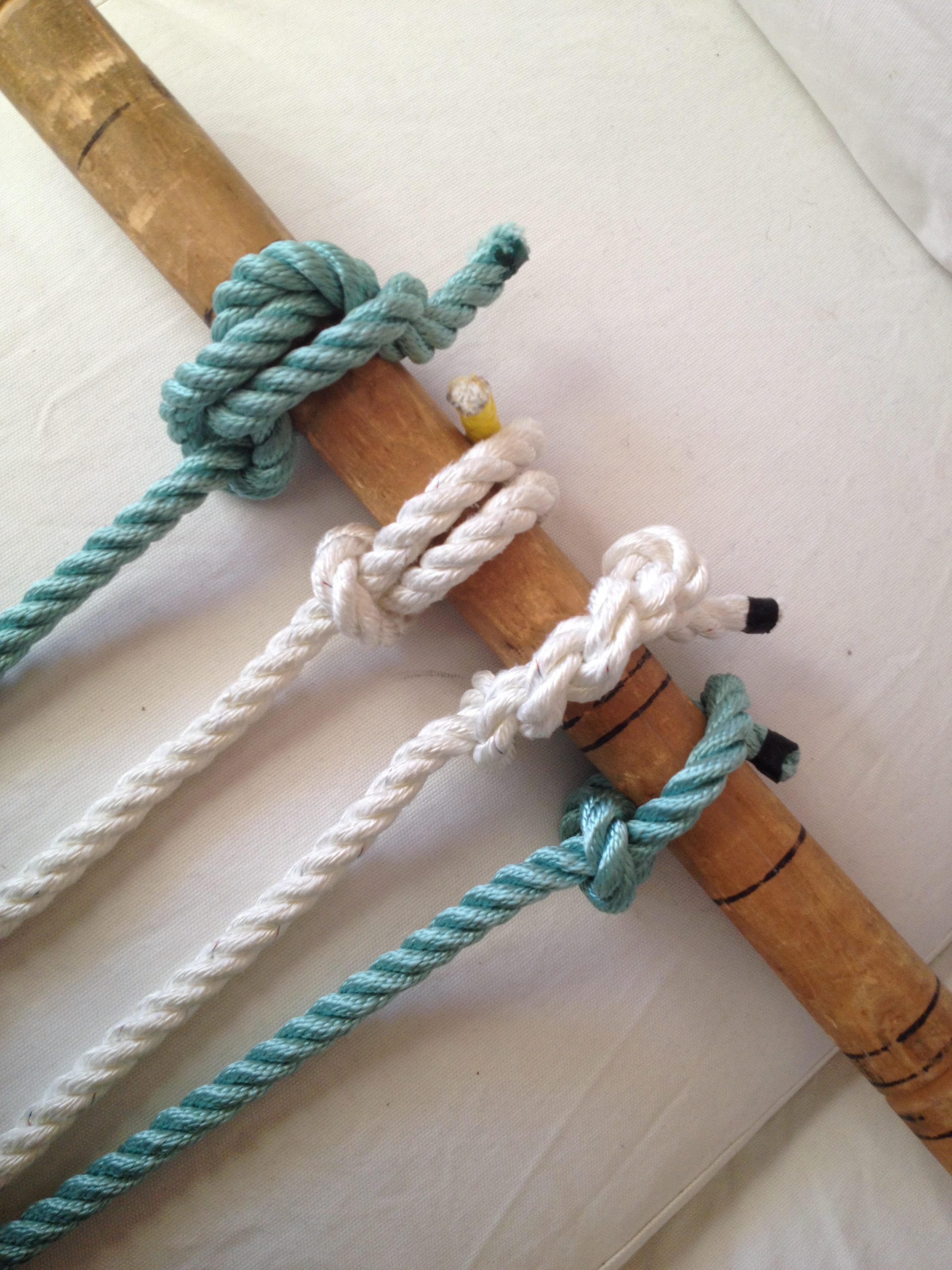 Halyard bend and timber hitch, top and bottom view, side by side